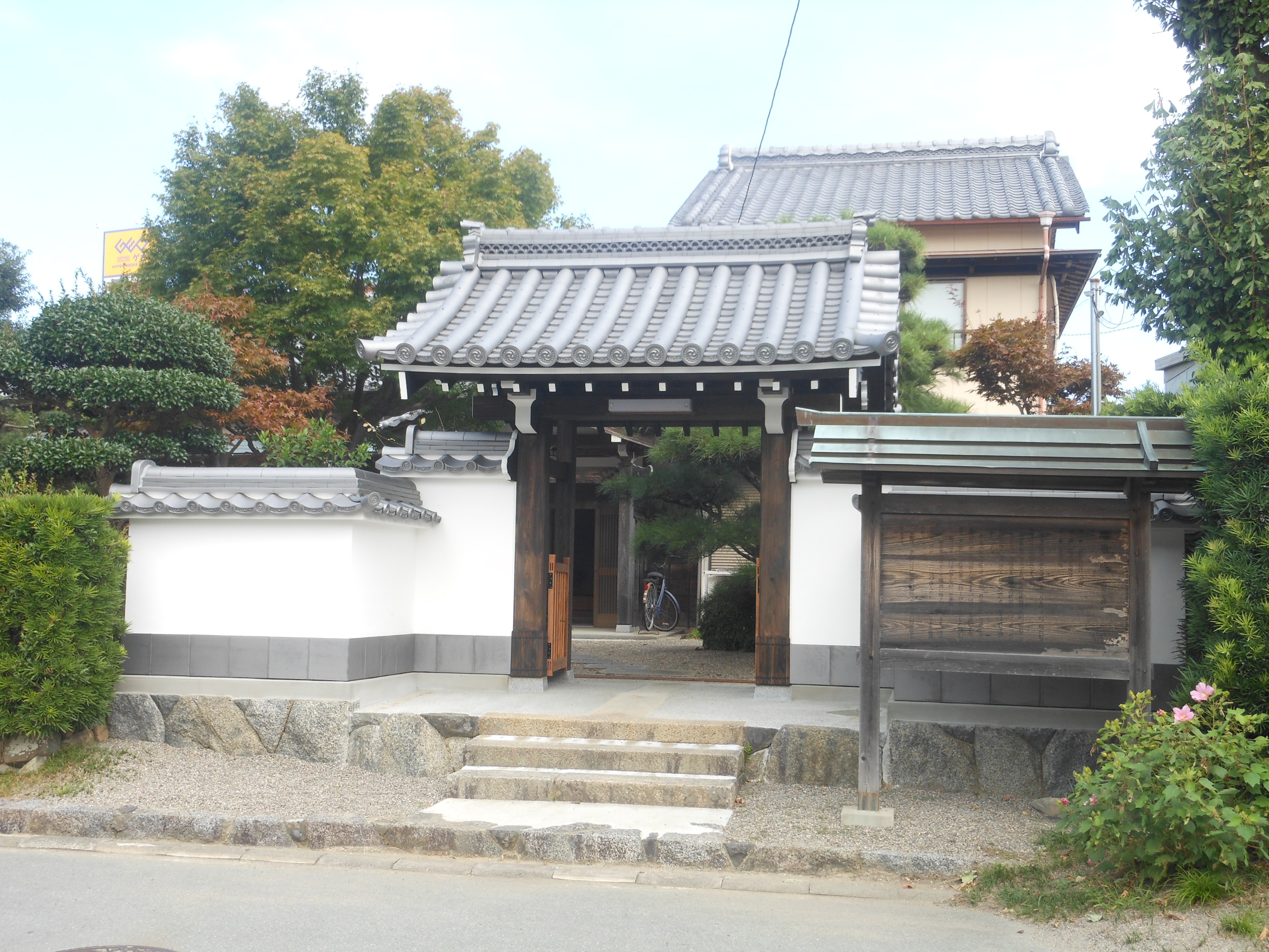 This is the Zuisen-in temple in Funae, Ise, Mie, Japan